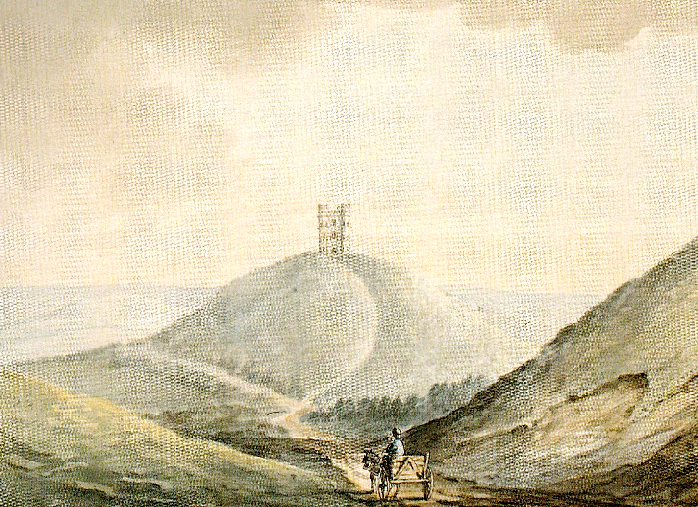 View from south of Haldon Belvedere, Dunchideock, Devon, by Rev. John Swete, dated October 1792, titled: "Tower on Pen Hill". Original sketch made on his visit in September 1789 and completed in studio in 1792. Devon Record Office DRO 564M/F1/30